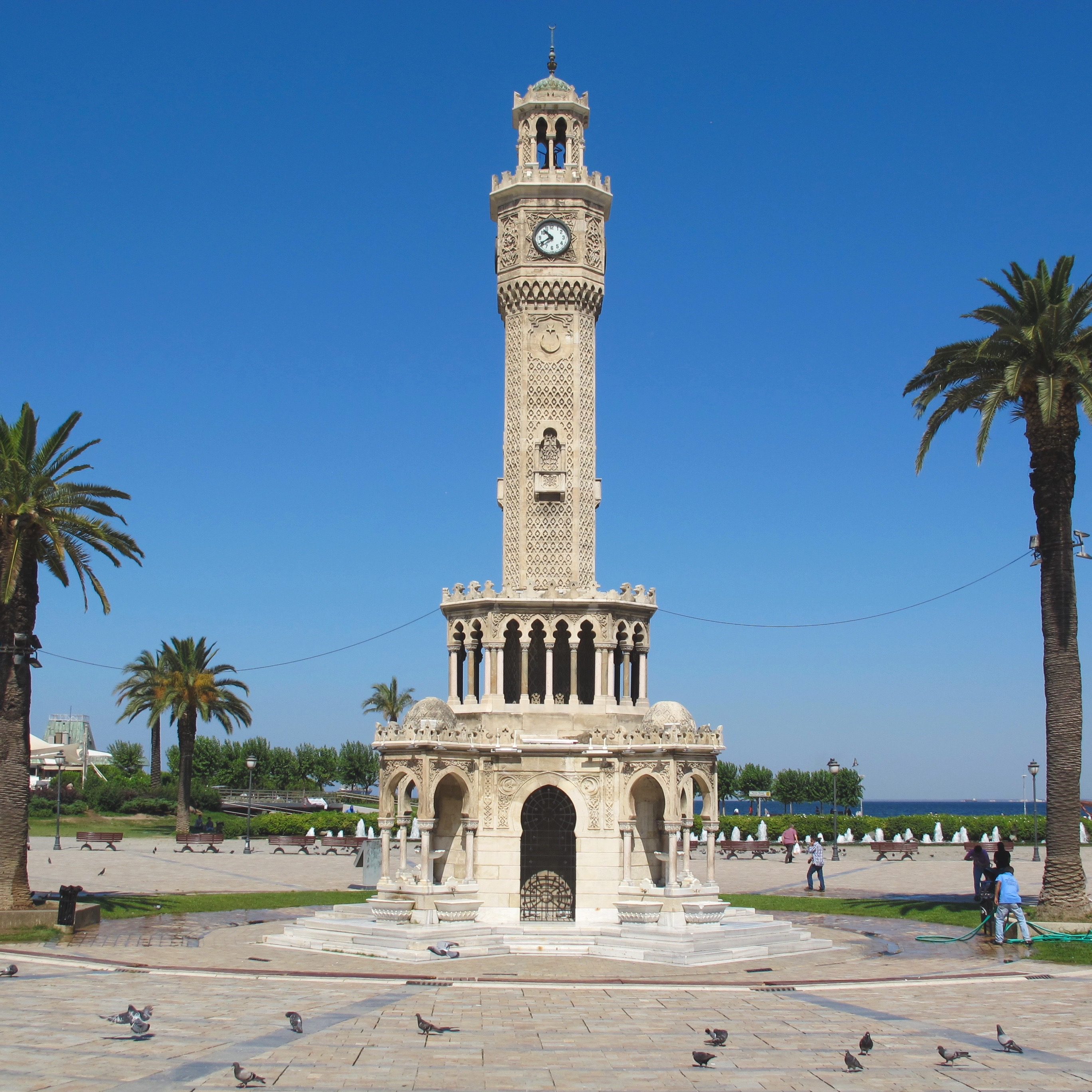 Will be used for Wikipedia userbox